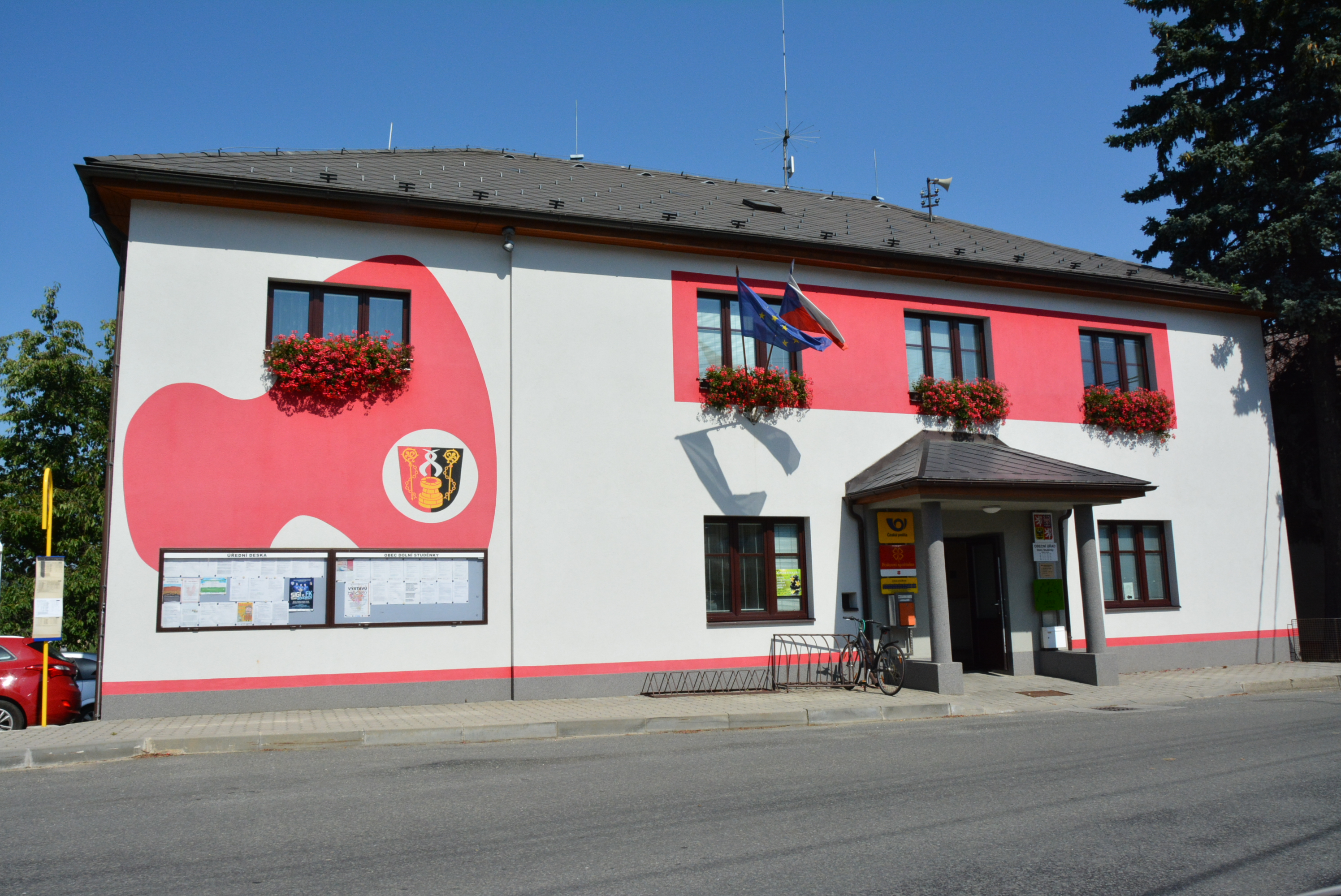 Dolní Studénky, Šumperk District, Czechia.